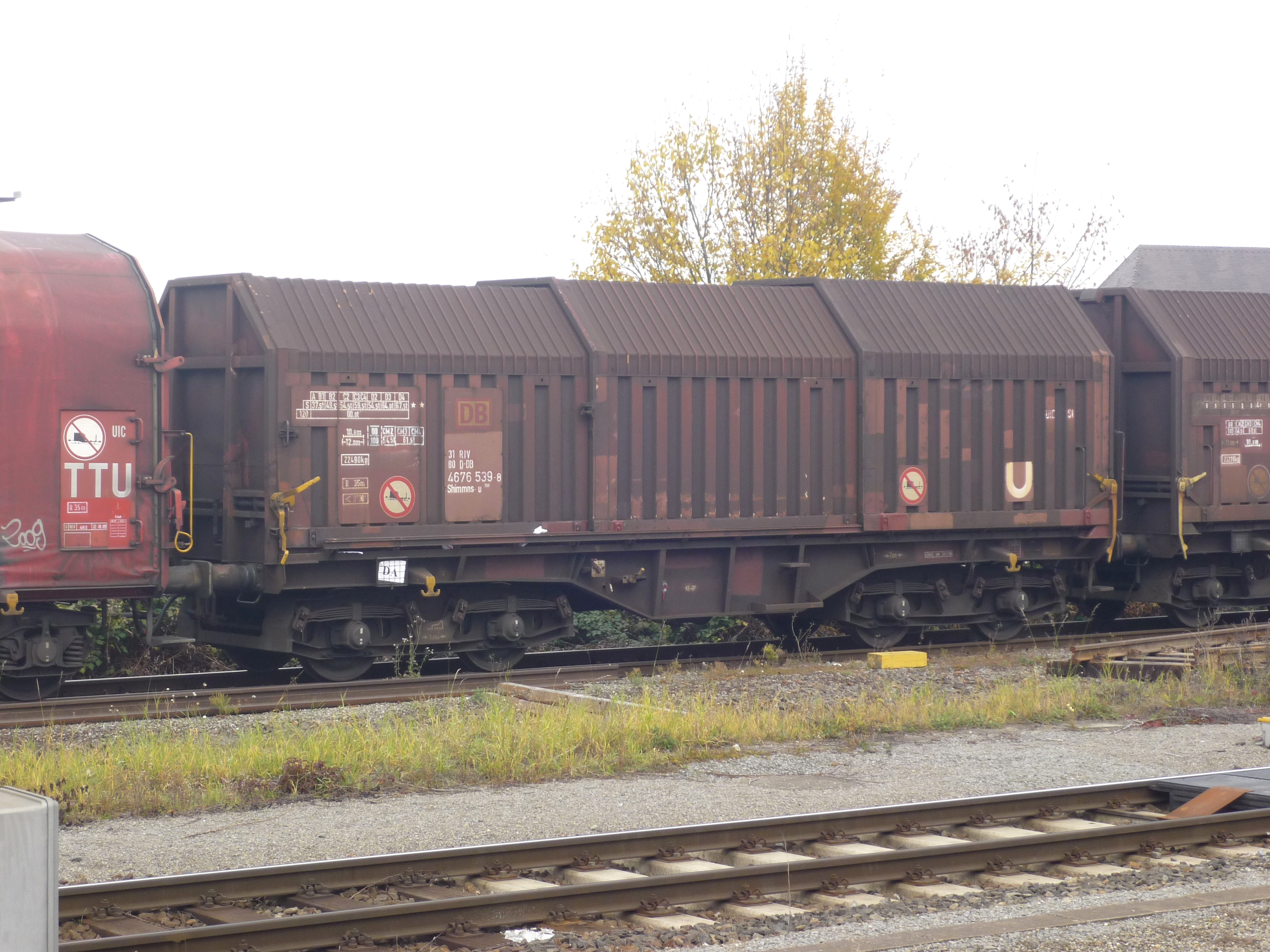 Freight car Shimmns-u of DB